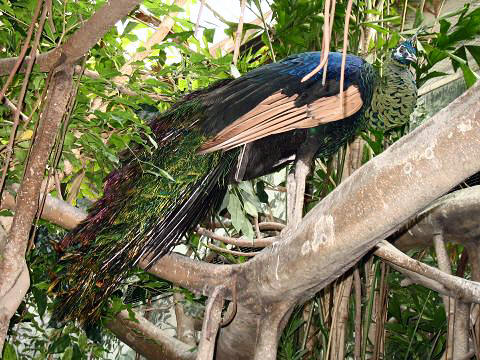 Description: Green Peafowl - Source: own work - Location: Bronx Zoo, New York - Author: self, User:Stavenn